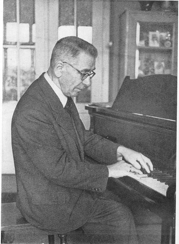 Czech pianist, Vilém Kurz (1972-1945)